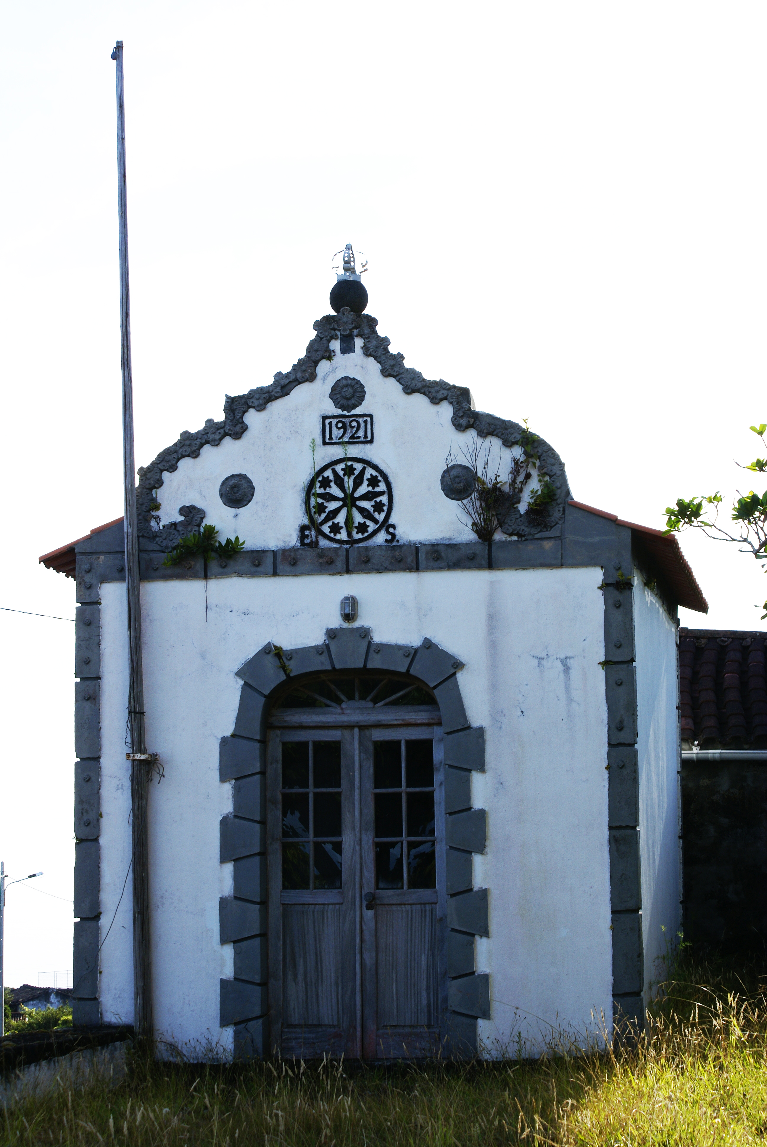 Império do Espírito Santo de Santa Ana, Santo António, concelho de São Roque do Pico, ilha do Portugal